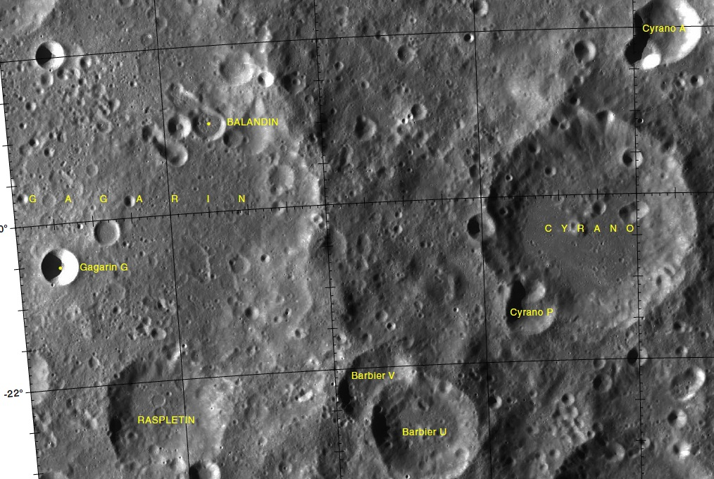 Part of the chart LAC-103